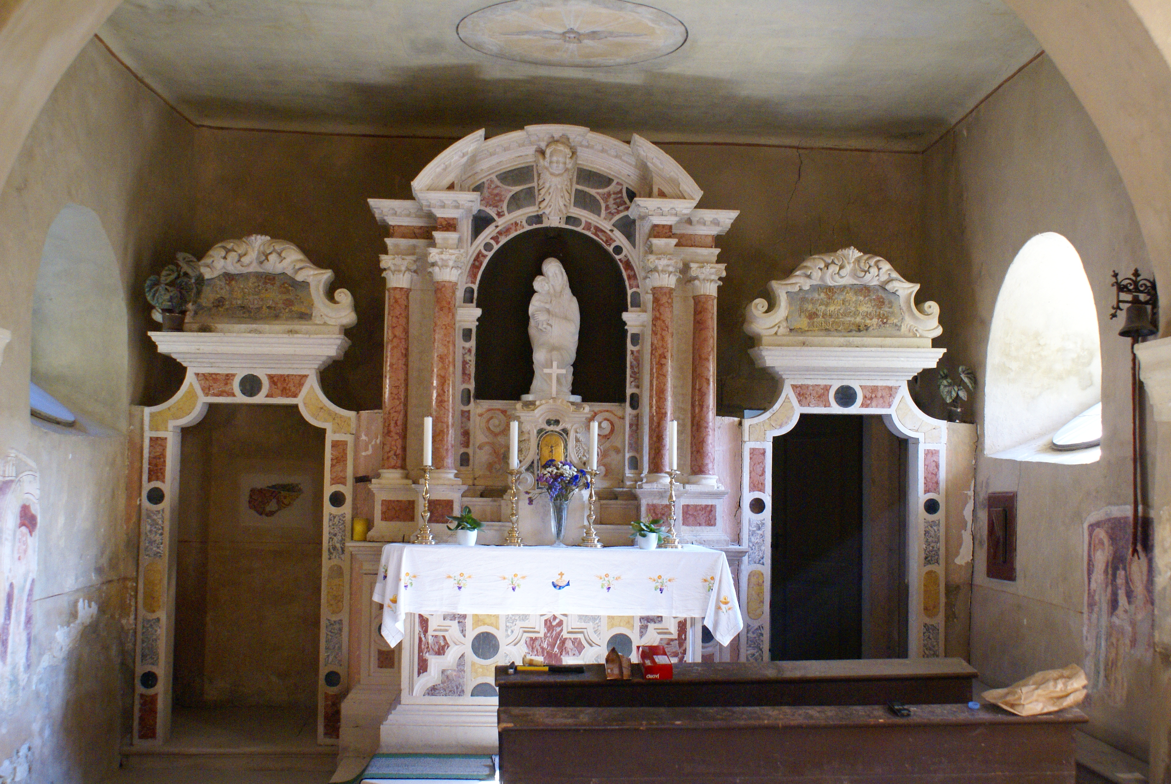 Altar of the church of St. Mary in Beram